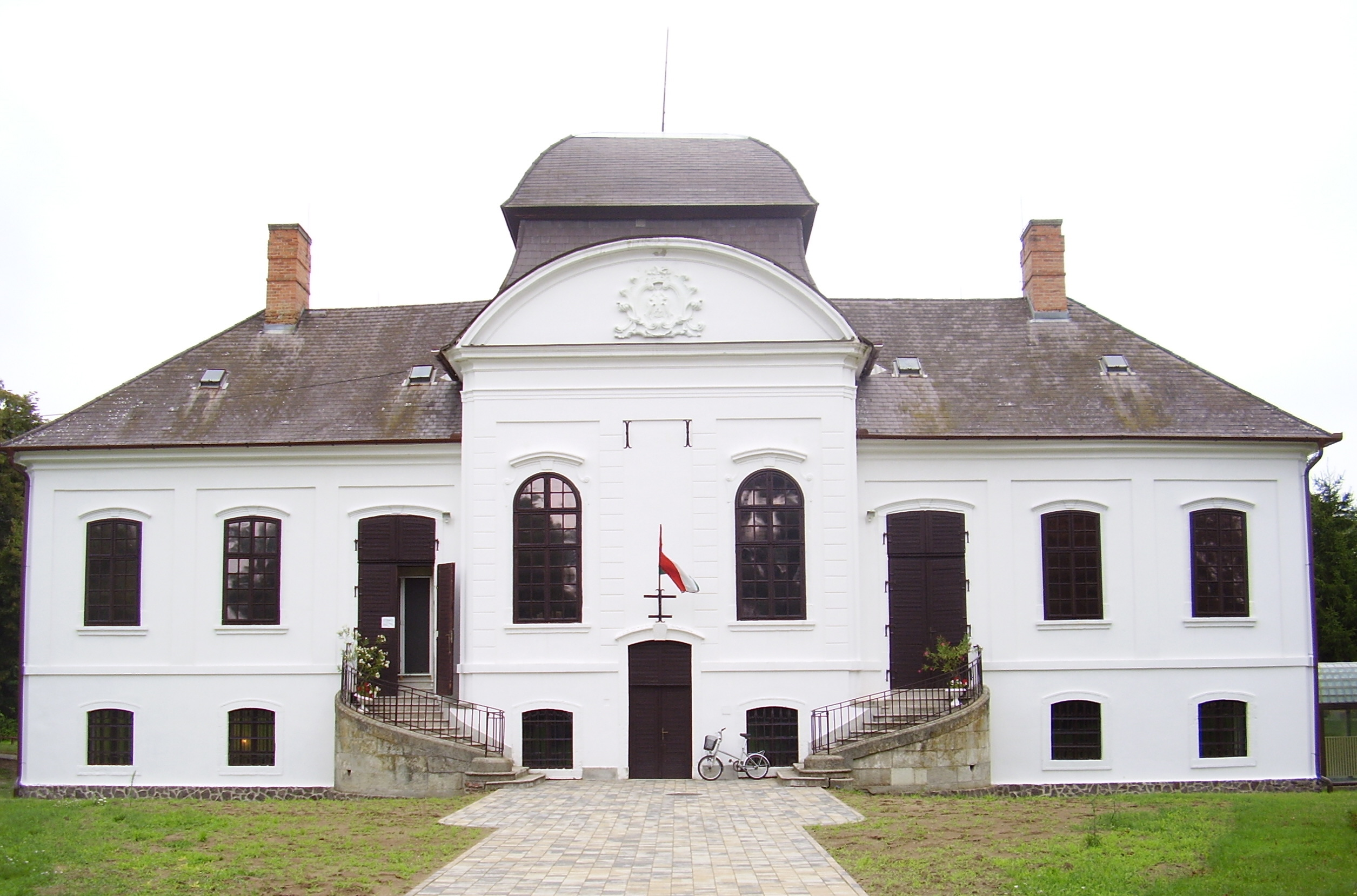 Almásy-castle, Tarnaméra; Hungary. Now it is a Museum of the Police. ) This is a photo of a monument in Hungary, Identifier: 5864